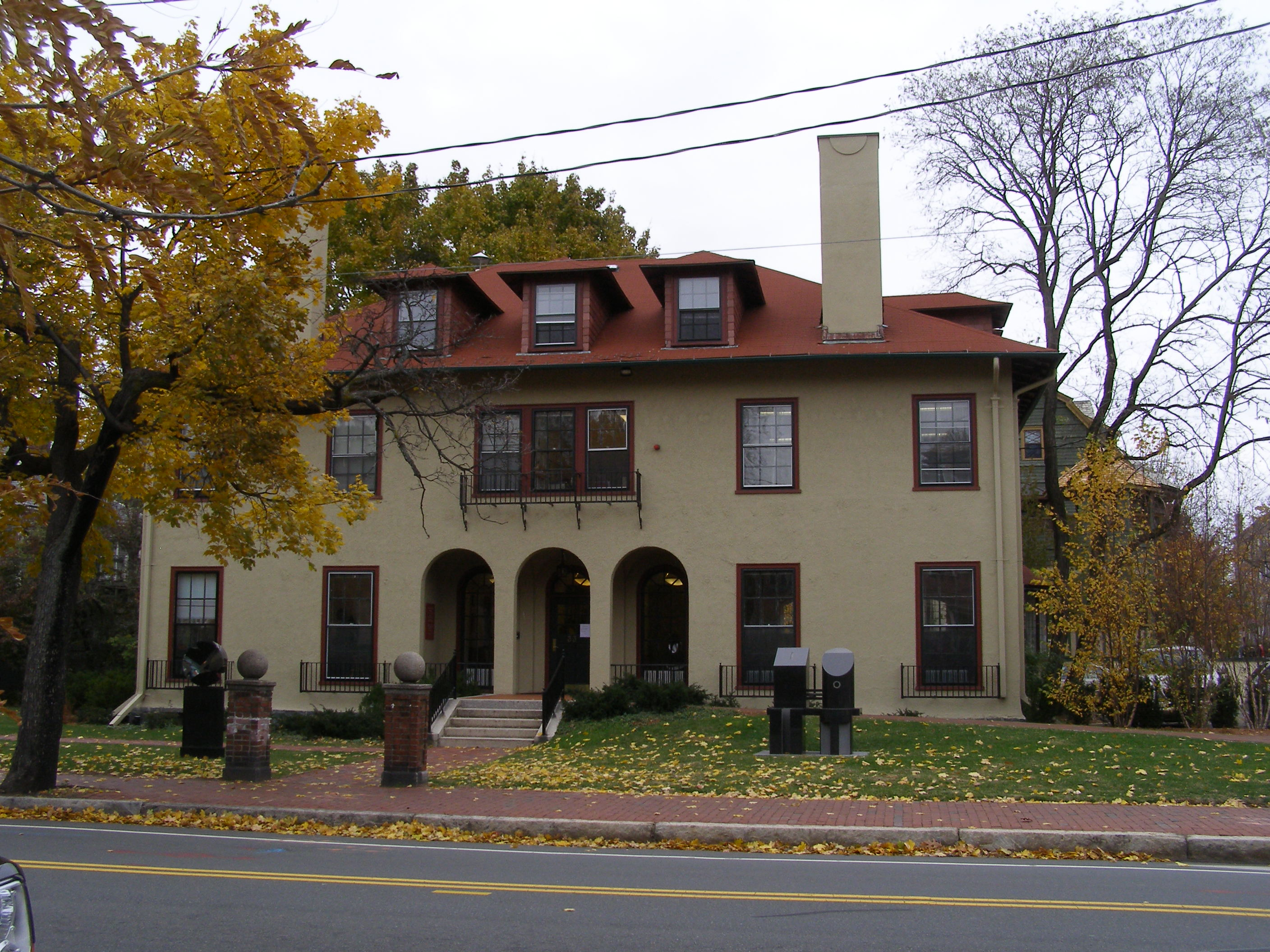 This is a picture of the Rey-Waldstein building at Longy School of Music in Cambridge, MA.